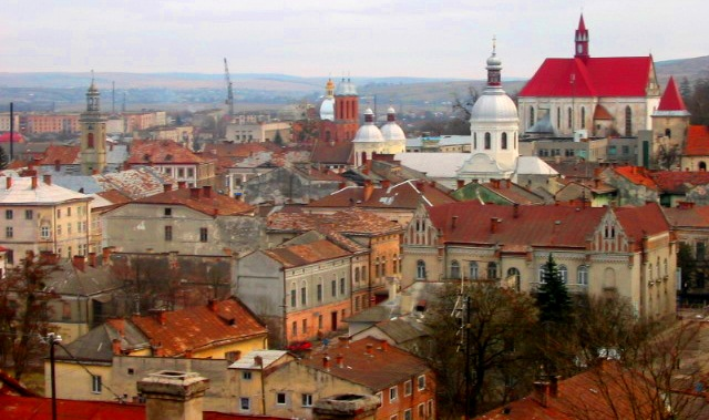 Panorama over old part of Berezhany city, in Berezhany, Ternopil region, western Ukraine